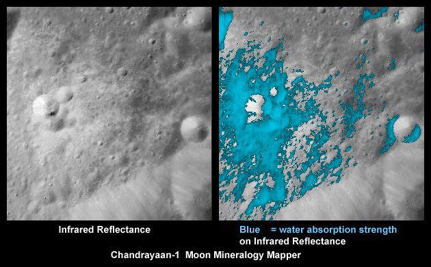 These images show a very young lunar crater on the side of the moon that faces away from Earth, as viewed by NASA's Moon Mineralogy Mapper on the Indian Space Research Organization's Chandrayaan-1 spacecraft. On the left is an image showing brightness at shorter infrared wavelengths. On the right, the distribution of water-rich minerals (light blue) is shown around a small crater. Both water- and hydroxyl-rich materials were found to be associated with material ejected from the crater.